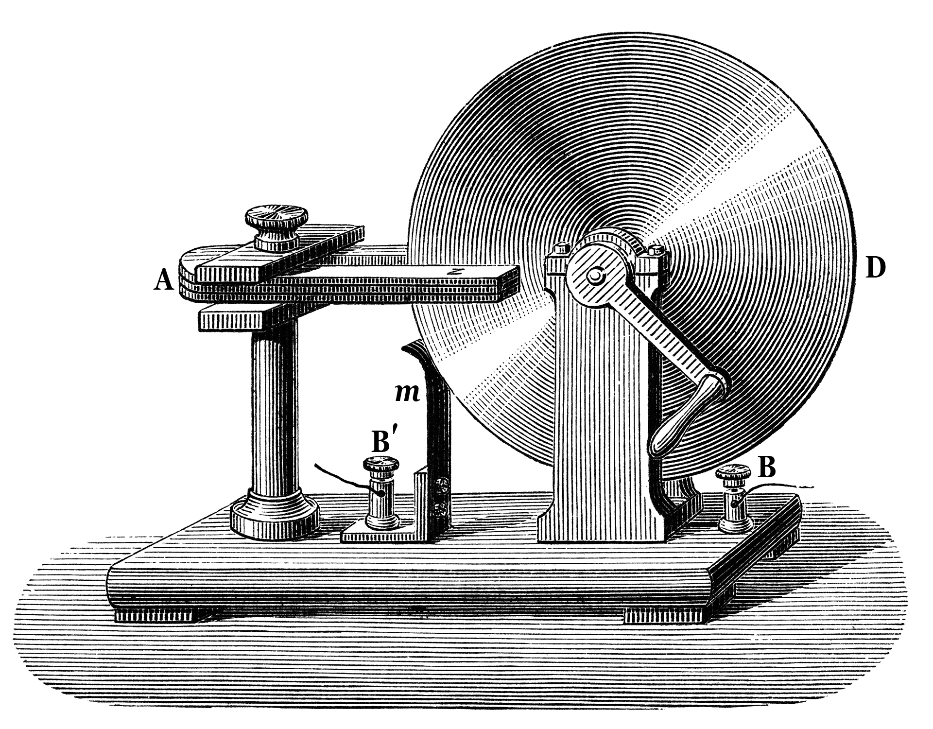 Drawing of Faraday disk, the first electromagnetic generator, invented by British scientist Michael Faraday in 1831. The copper disk (D) rotated between the poles of a horseshoe shaped magnet (A), creating a potential difference between the axis and rim due to Faraday's law of induction. If an electrical circuit such as a galvanometer was connected between the binding posts (B) and (B') the motion induced a radial flow of current in the disk, from the axle toward the edge. The current flows into the spring contact (m) sliding along the edge of the disk, out of binding post (B') through the external circuit to binding post (B) , and back into the disk through the axle. Turning it in the opposite direction reverses the direction of current. The caption also says that passing a current from a Bunsen cell (battery) through it would cause the disk to turn, making it function as an electric motor. The labeled parts are given in the caption as: (A) inducing magnet (D) induced disk (B) binding-screw for current entering or exiting axis of disk (B') binding-screw for current entering or exiting circumference of disk (m) rubber (sliding spring contact) for edge of disk. The caption describes it as 'Foucault's and Le Roux's apparatus' so this picture was not drawn from Faraday's original machine, but one owned by Faraday's contemporary French physicist Léon Foucault. The Faraday disk was an inefficient generator because counter-currents flowed back through regions of the disk outside the magnetic field. It was the first homopolar generator Alterations to image: cropped out caption and list of parts.